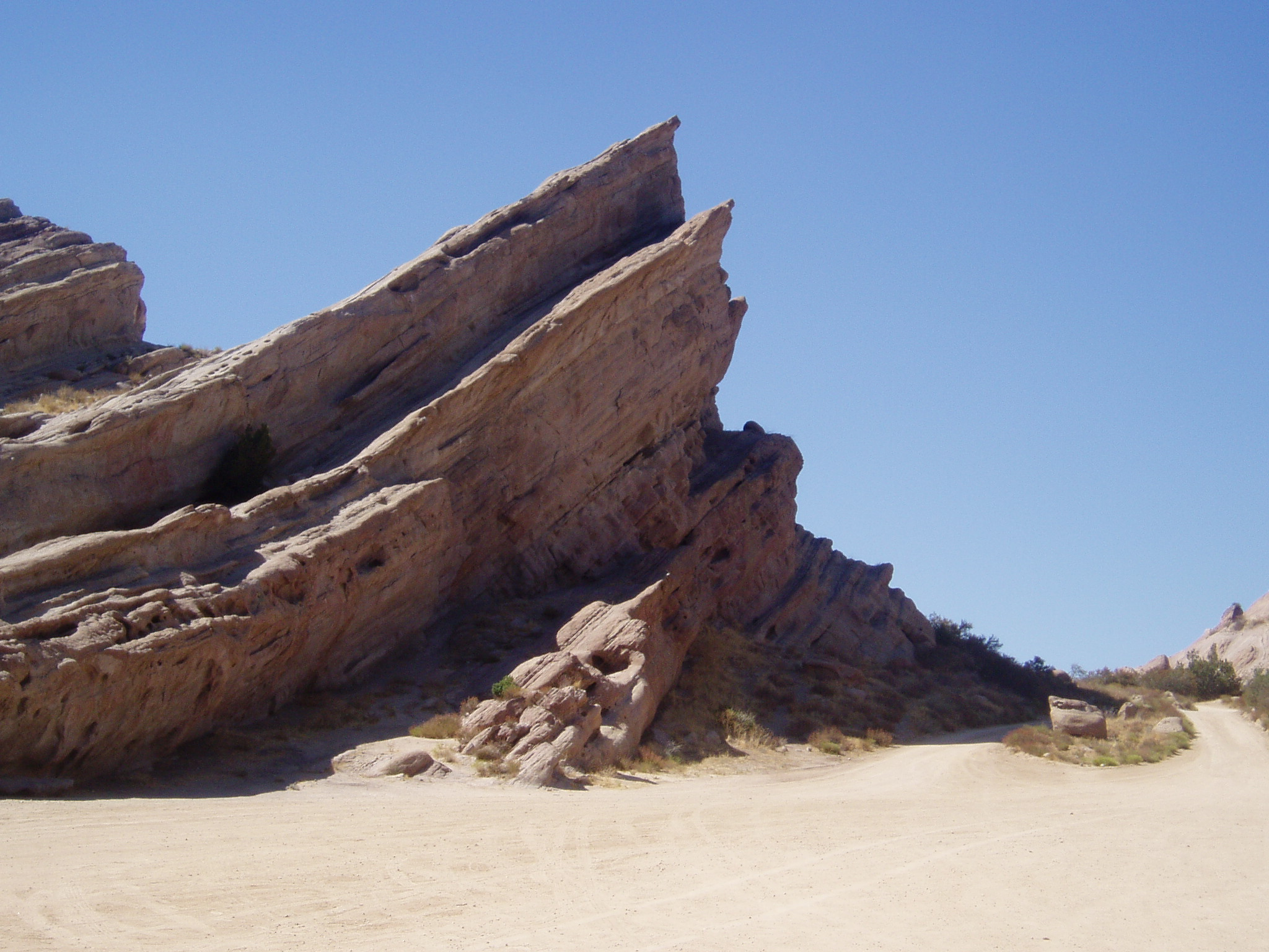 "Gorn" Rock at Vasquez Rocks in Agua Dulce, California